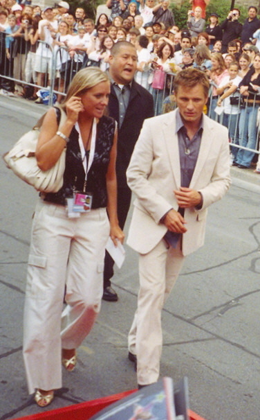 Viggo Mortensen at the premiere of History of Violence, Toronto Film Festival 2005